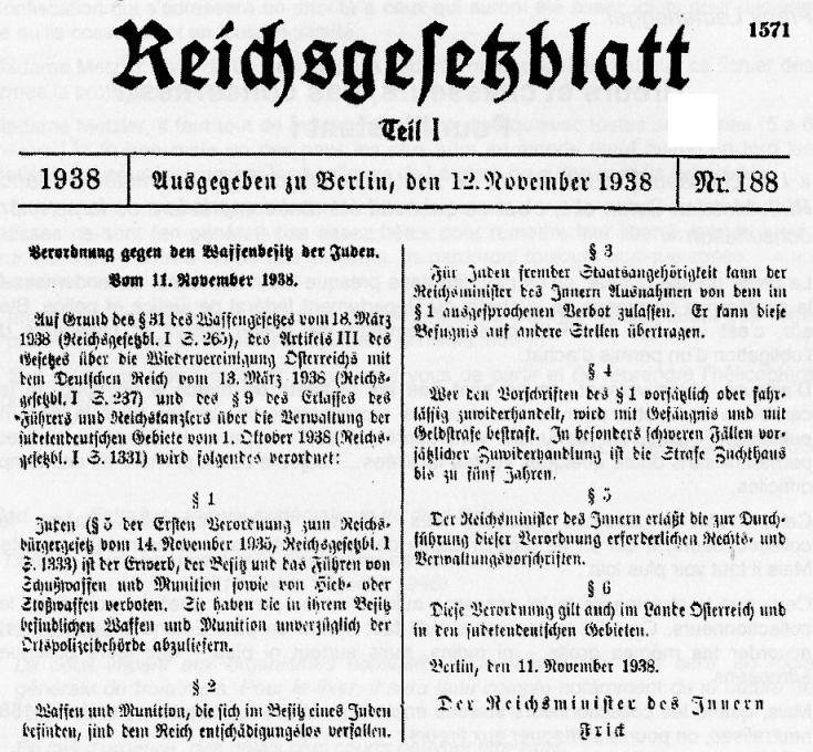 Reichsgesetz 1938